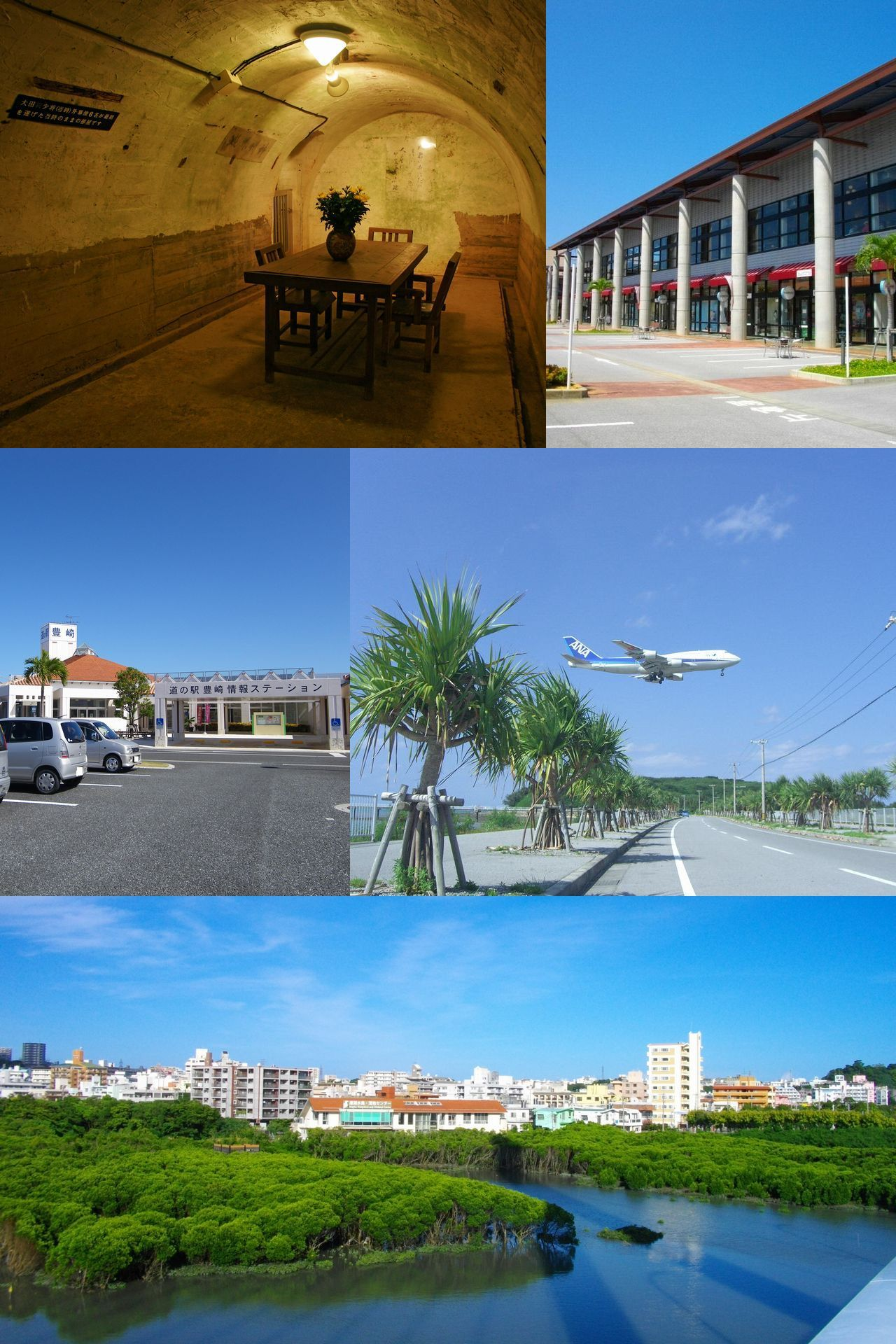 This image is montage of Tomigusuku, Okinawa prefecture, Japan upper left : The Former Japanese Naval Underground Headquaters upper right : Okinawa Outlet Mall Ashibinaa middle left : Roadside station Toyosaki middle right : Airplane trying to land to Naha Airport in front of Senaga Island bottom : Mangroves in Lake Man